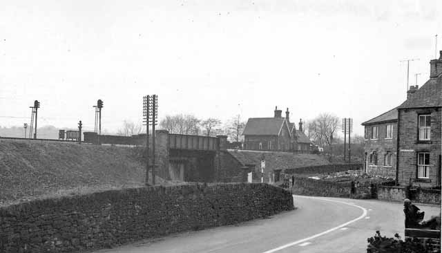 Buxworth Station (remains). View westward, towards New Mills and Manchester (Central); ex-Midland main lines from Derby and Sheffield via Chinley to Manchester. Buxworth ('Bugsworth' until 6/30) station was closed 15/9/58; the Peak Line from Derby was closed (Matlock - Millers Dale) 6/3/67.